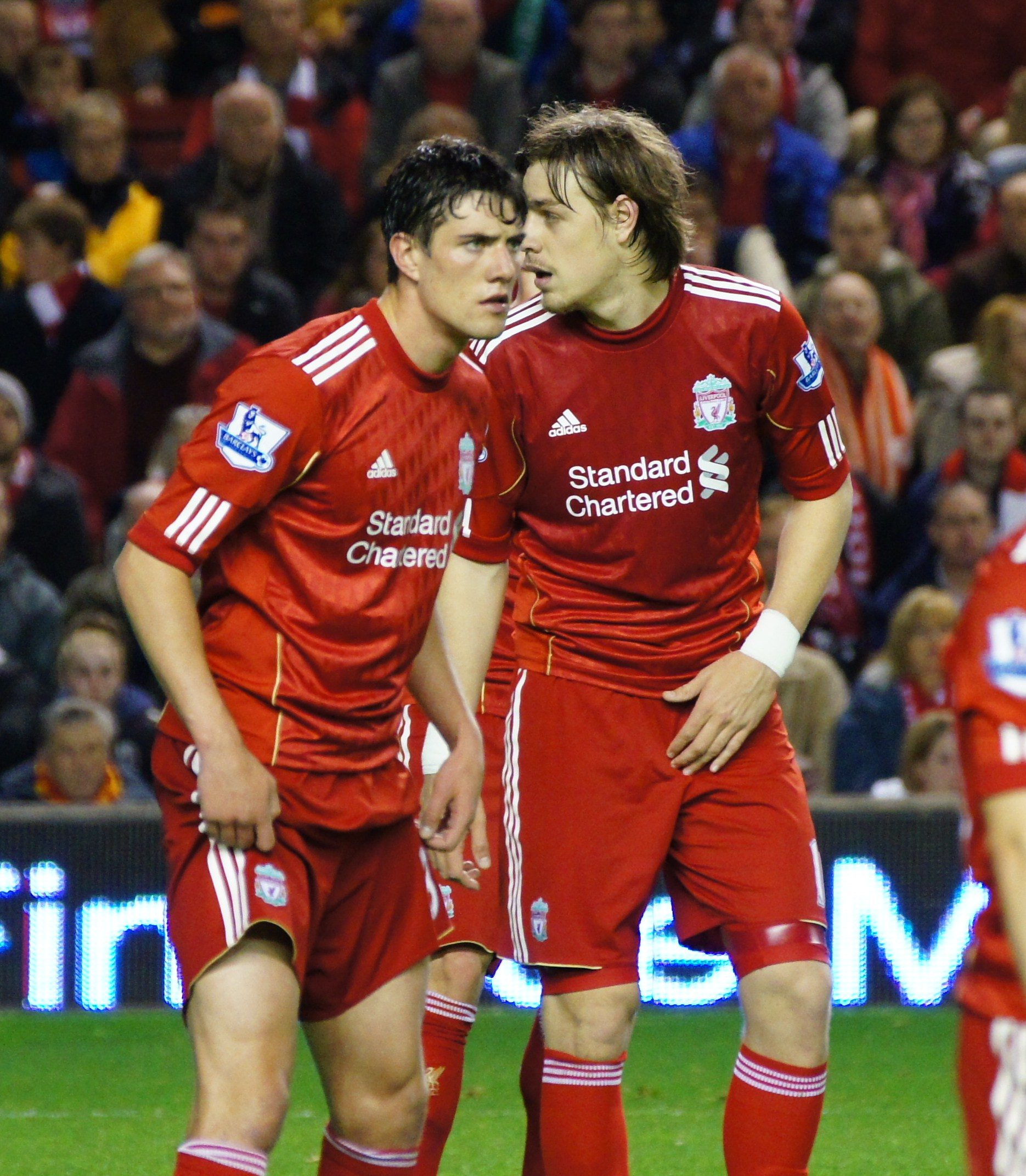 Martin Kelly and Sebastian Coates playing against Fulham, 01/05/2012.